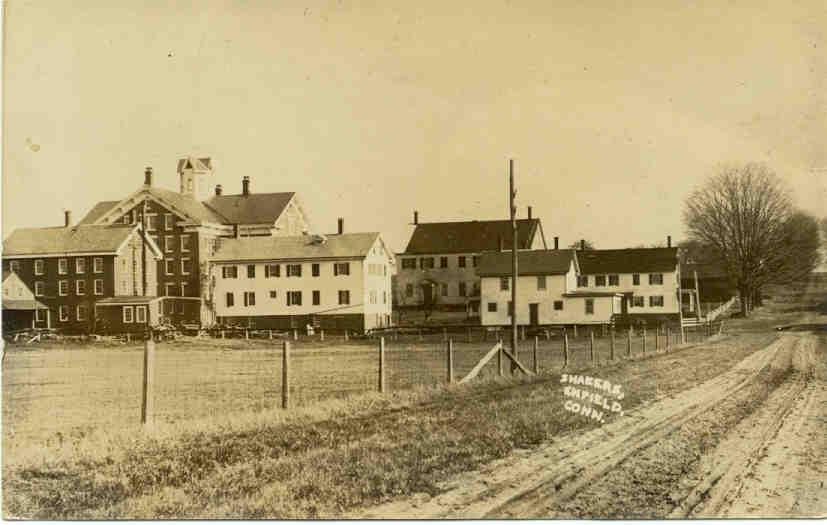 Enfield (CT) Shaker Village in c. 1910, now site of Enfield Correctional Institute. From an old postcard.